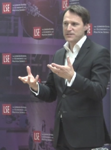 Rolf Dobelli on "The Art of Thinking Clearly" at the London School of Economics (LSE) on 11 April 2013